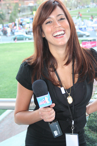 Amber Lee Ettinger known as Obama Girl